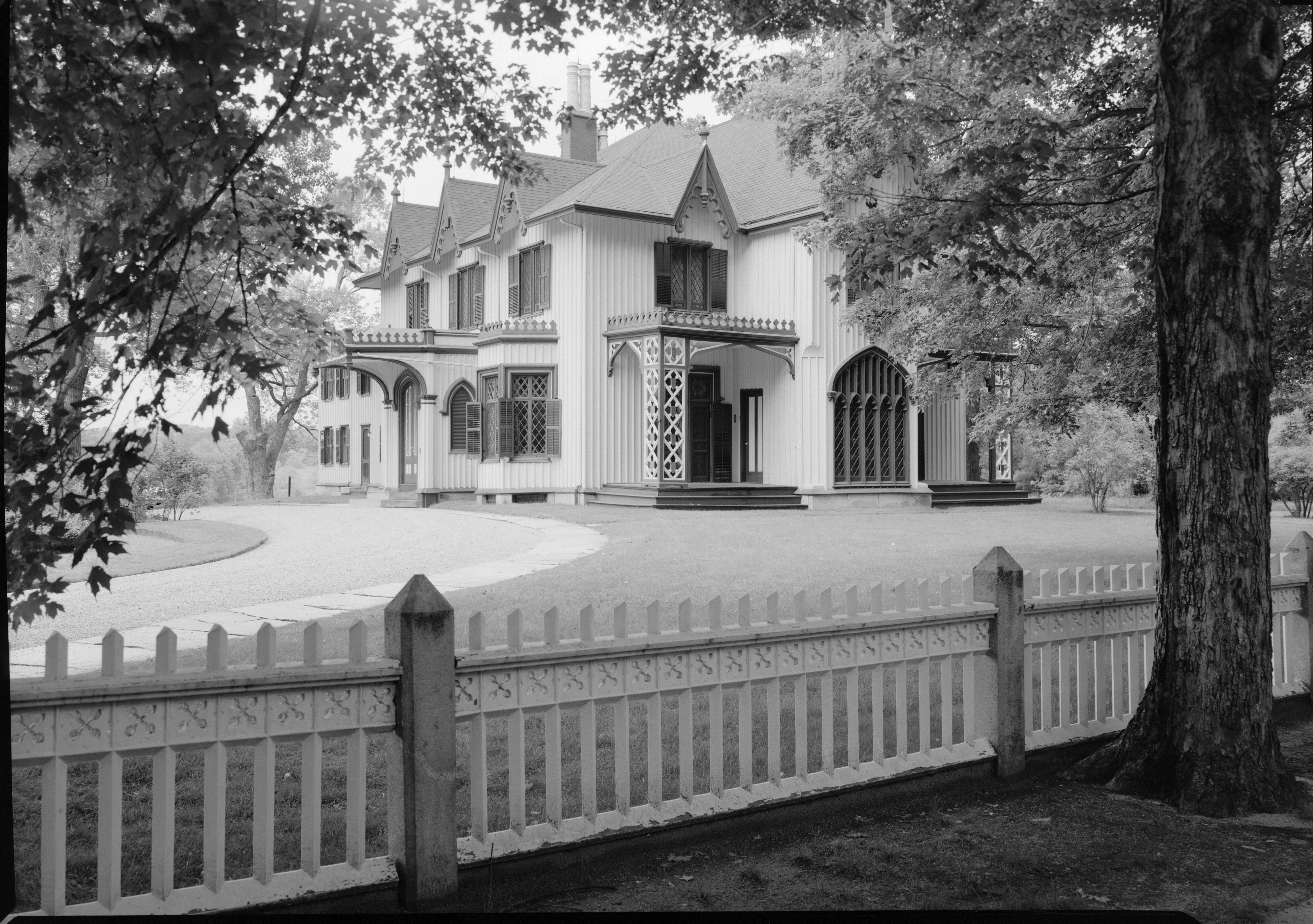 Roseland Cottage (Bowen Cottage), Woodstock, Connecticut, USA. General view of exterior.